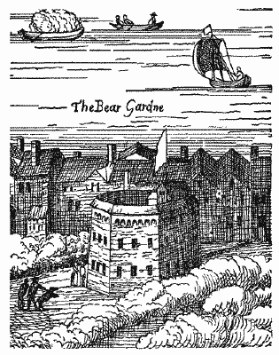 The Bear Garden, Bankside, London from Visscher's Map of London, published in 1616, but representing the city as it was several years earlier.